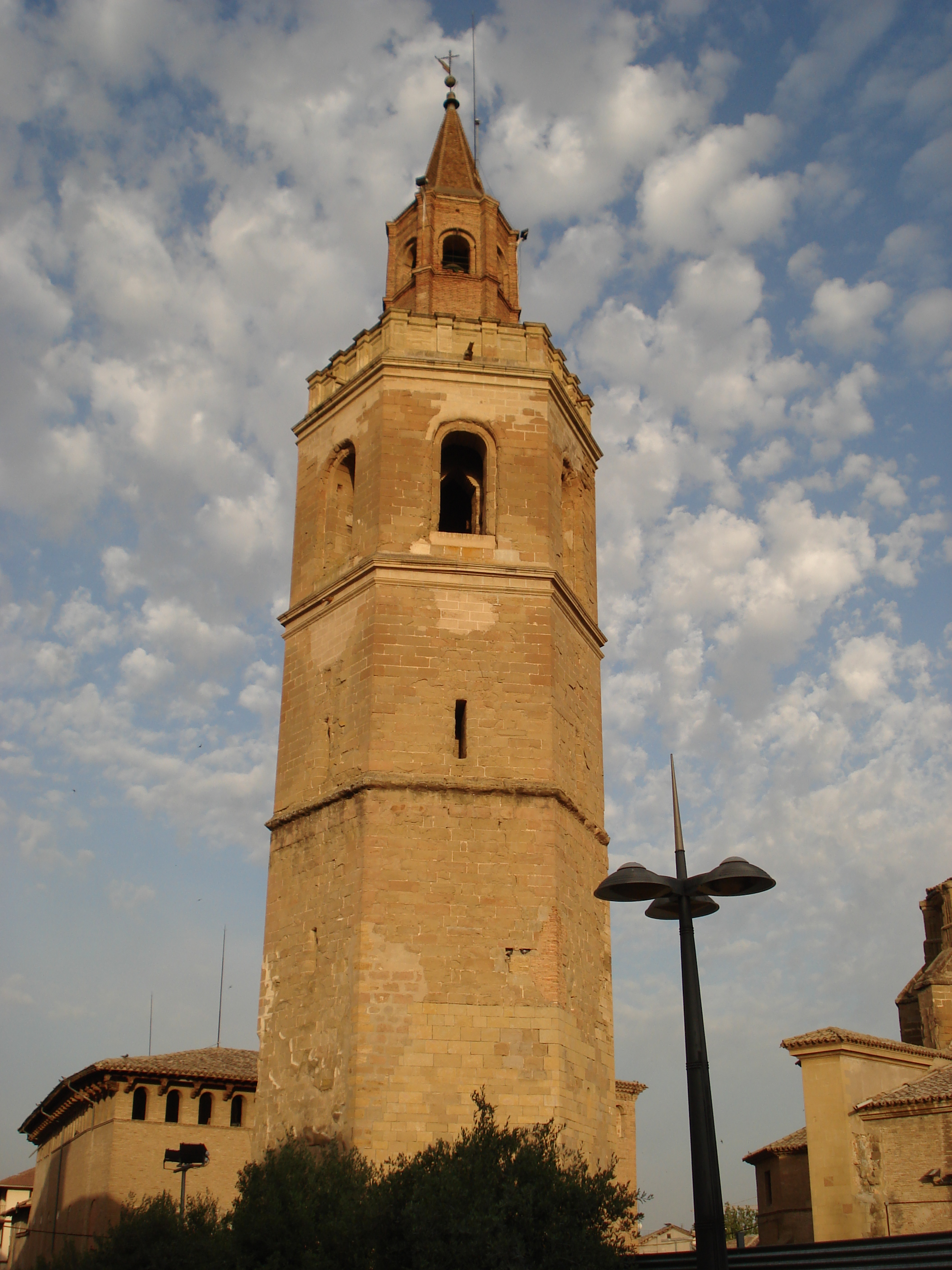 Tower of the cathedral in Barbastro, Spain